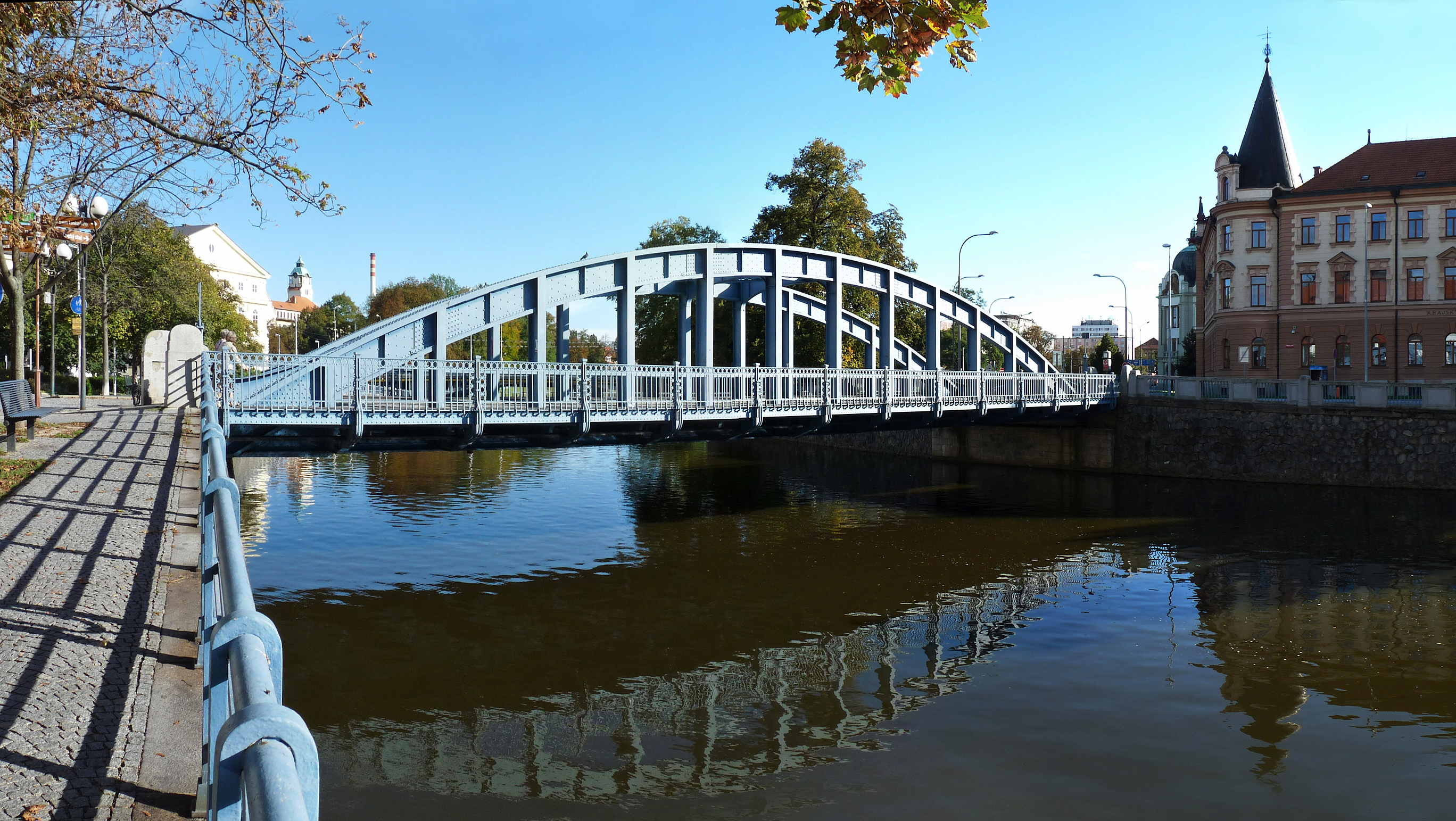 Zlatý (Golden) Bridge over the Malše River in Dr. Stejskala Street, České Budějovice, Czech Republic.